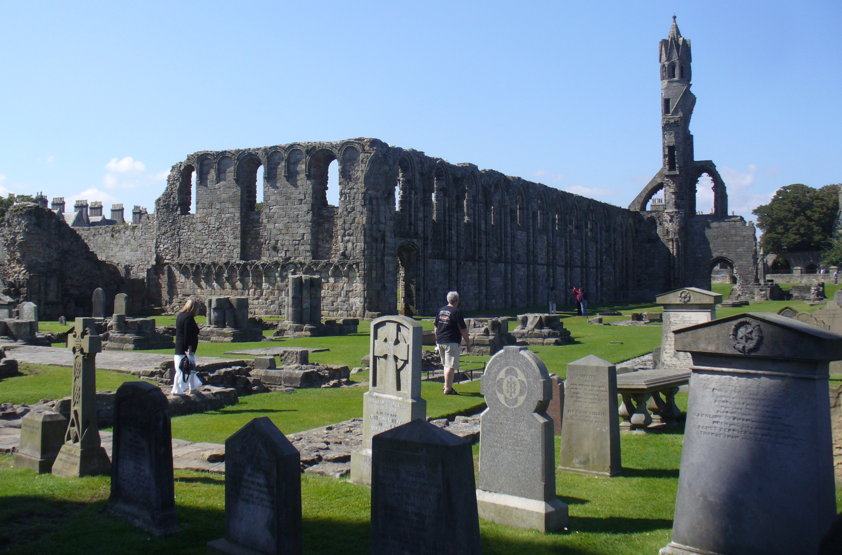 St. Andrew's Cathedral